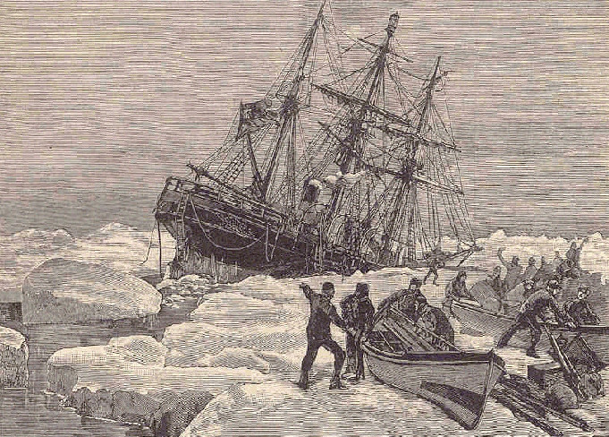 Foundering of the Eira By permission of the Proprietors of 'The Illustrated London News.;; Subject: Shipwrecks, Eira (ship) Tag: Expositions, Vessels